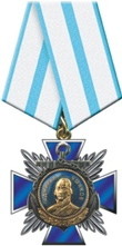 Order of Ushakov (Russia)